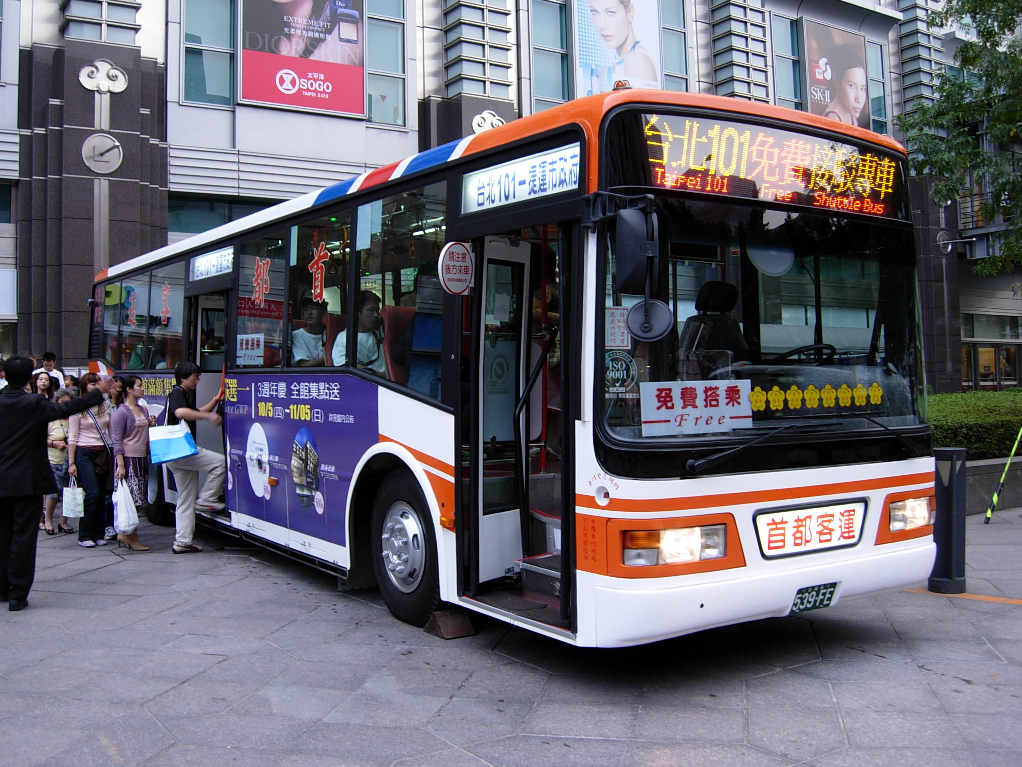 Taipei 101 Free Shuttle Bus is currently operated by Capital Bus Co. Ltd.